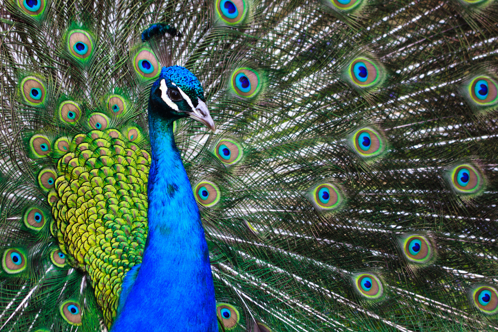 An Indian Peafowl at Cincinnati Zoo, Ohio, USA.